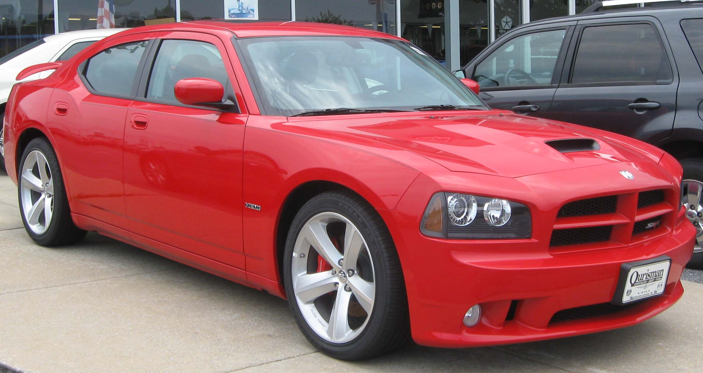 2010 Dodge Charger photographed in Clarksville, Maryland, USA.